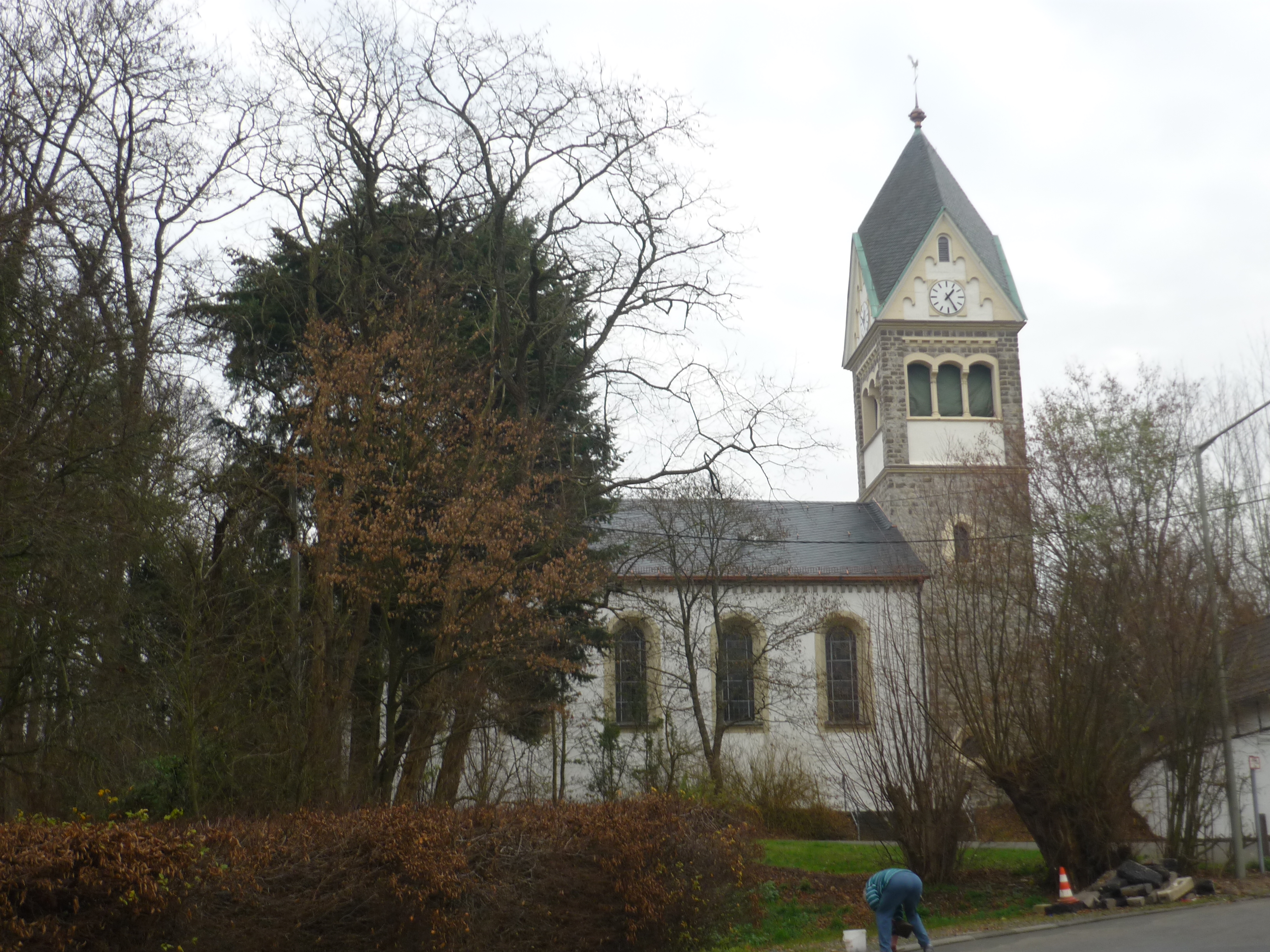 curch in schoeneberg westerwald